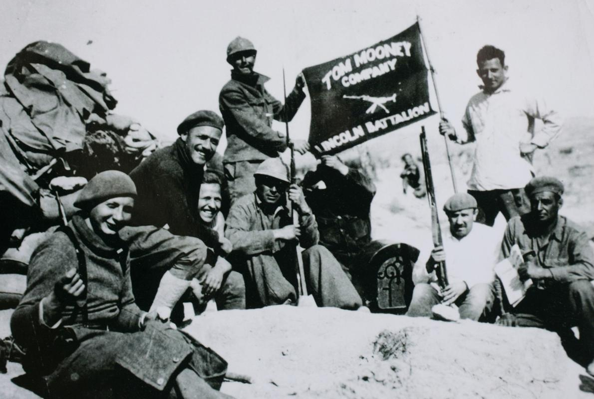 Tom Mooney Company from the Lincoln Battalion. Jarama, c. 1937